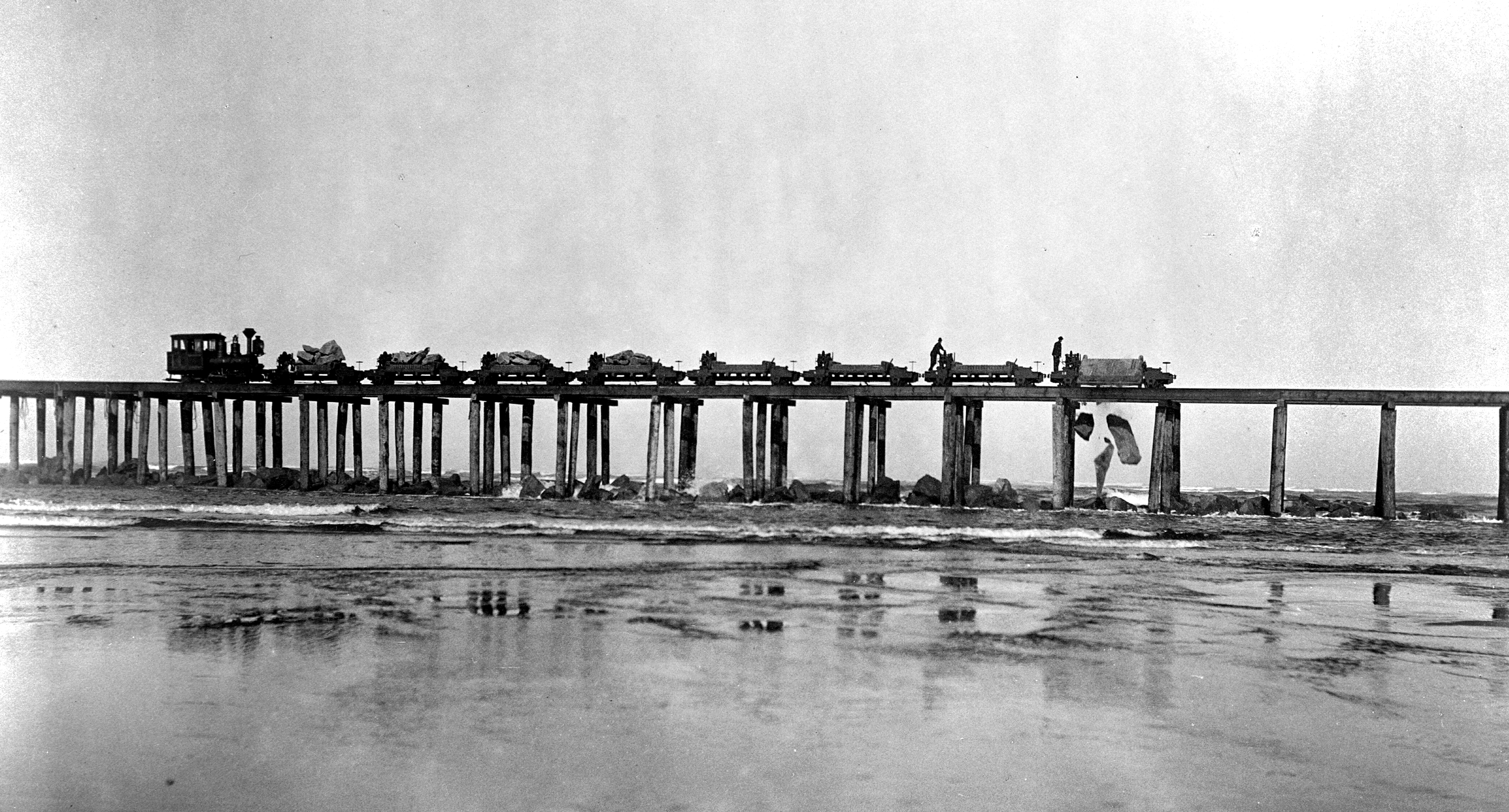 Train dumping rock on jetty, Coos Bay, Oregon.